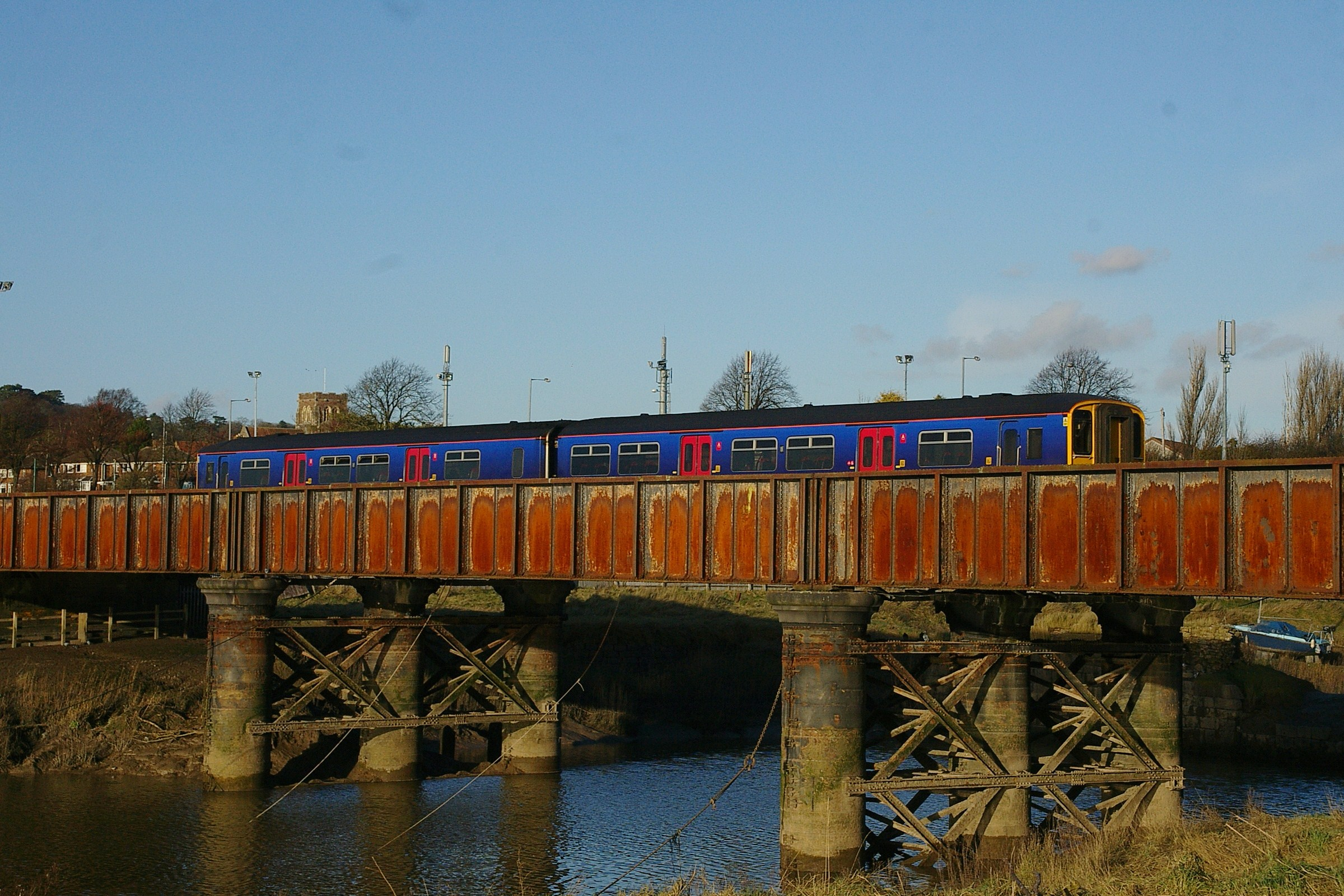 150233 crosses the Severn Beach Line bridge over the River Trym.